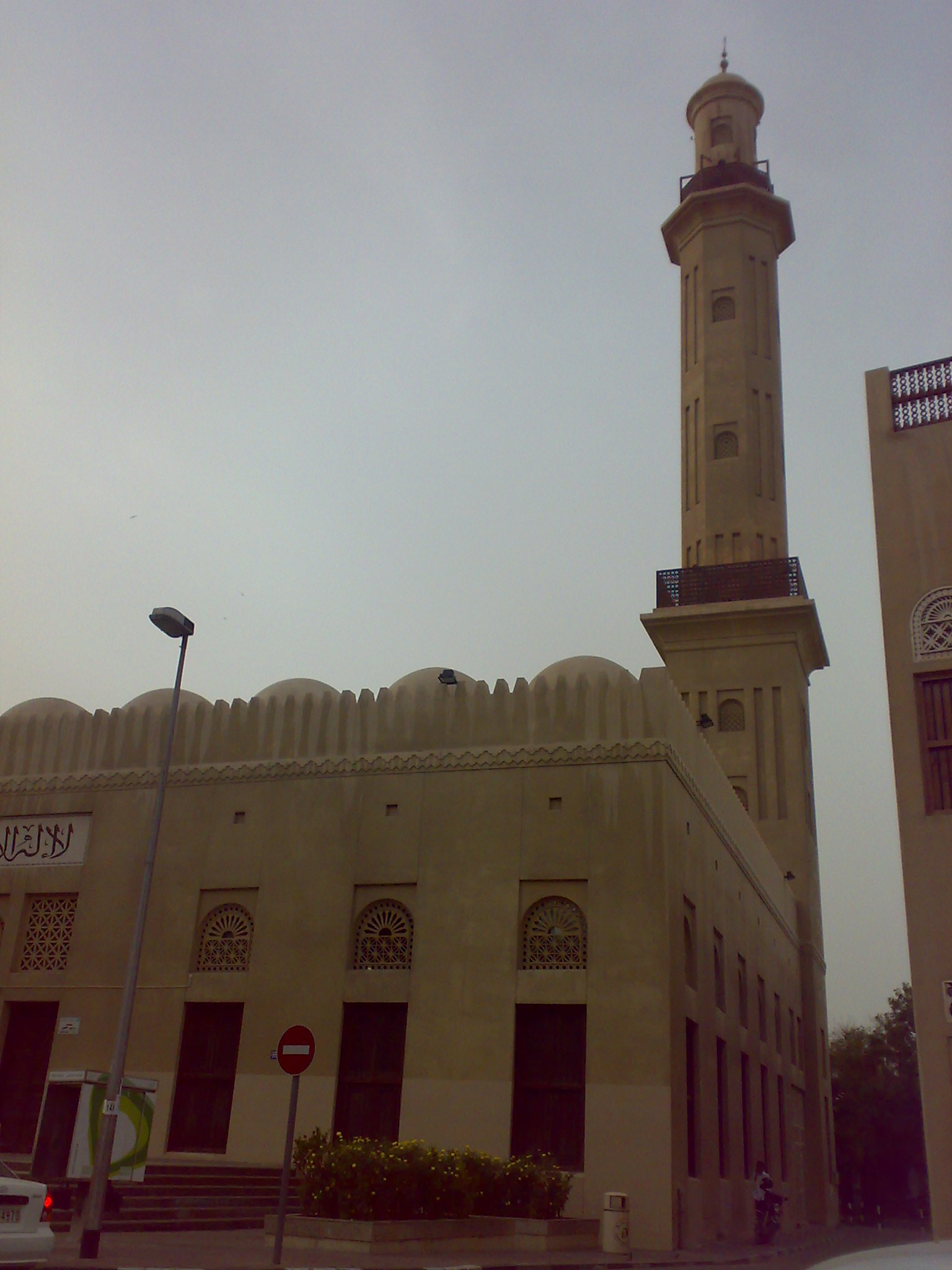 Grand Mosque, Bur Dubai, Dubai (UAE)